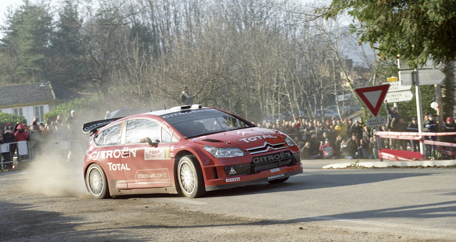 Sébastien Loeb with his Citroën C4 WRC at the 2008 Monte Carlo Rally.